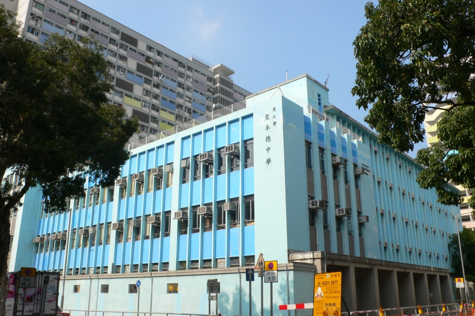 S.K.H. St. Benedict School in Choi Hung Estate, Kowloon, Hong Kong